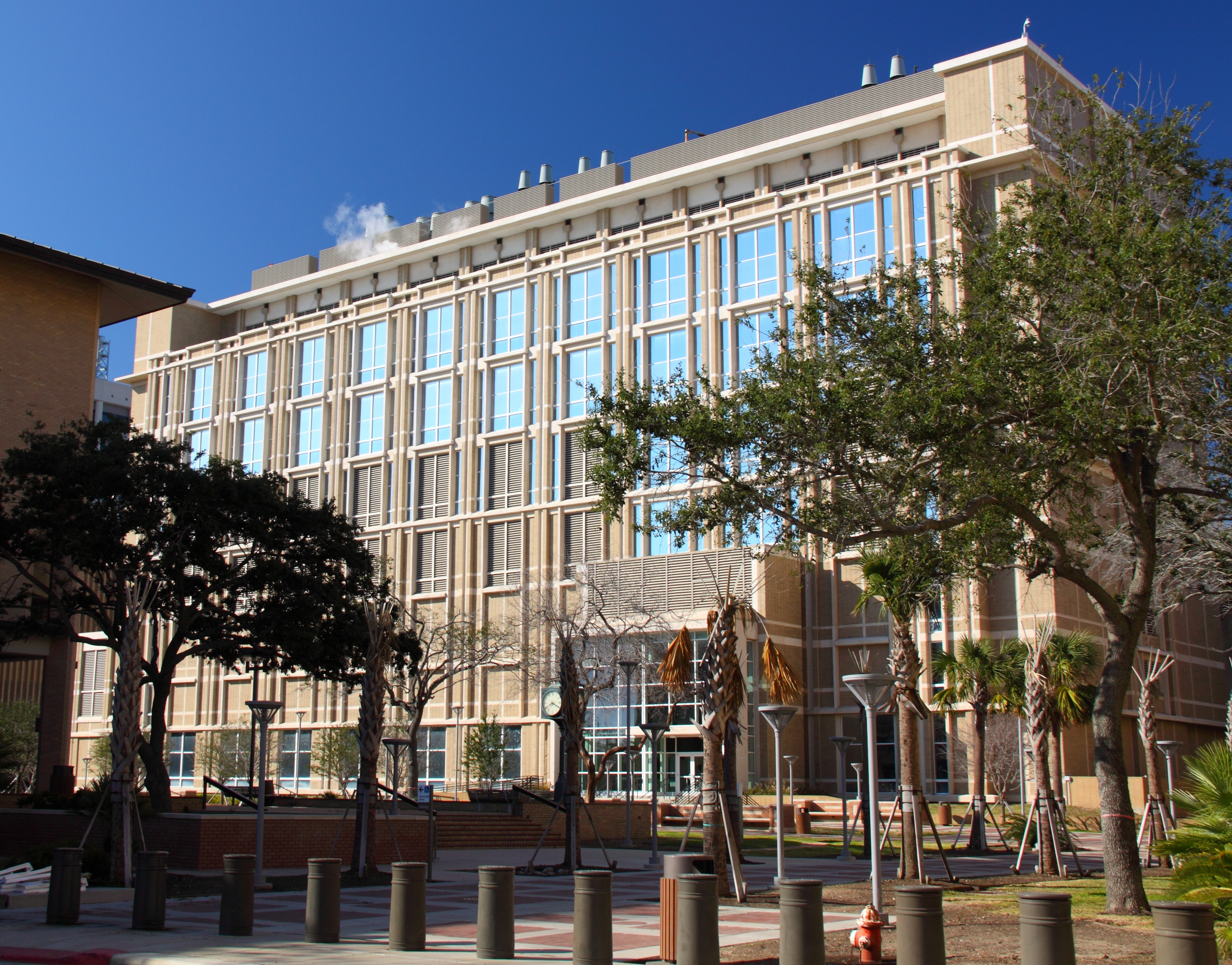 The Galveston National Laboratory (BSL-4 Lab) on the campus of the University of Texas Medical Branch in Galveston, Texas. The Galveston National Laboratory at UTMB is the first full-size BSL4 lab located on a university campus in the United States. It is one of two National Biocontainment Laboratories constructed under grants awarded by the National Institute of Allergy and Infectious Diseases/National Institutes of Health (NIAID/NIH) When reusing this photo, please take the following news article into consideration: nsaum75¡שיחת!, the creator of this photo, is not the individual mentioned in the article.